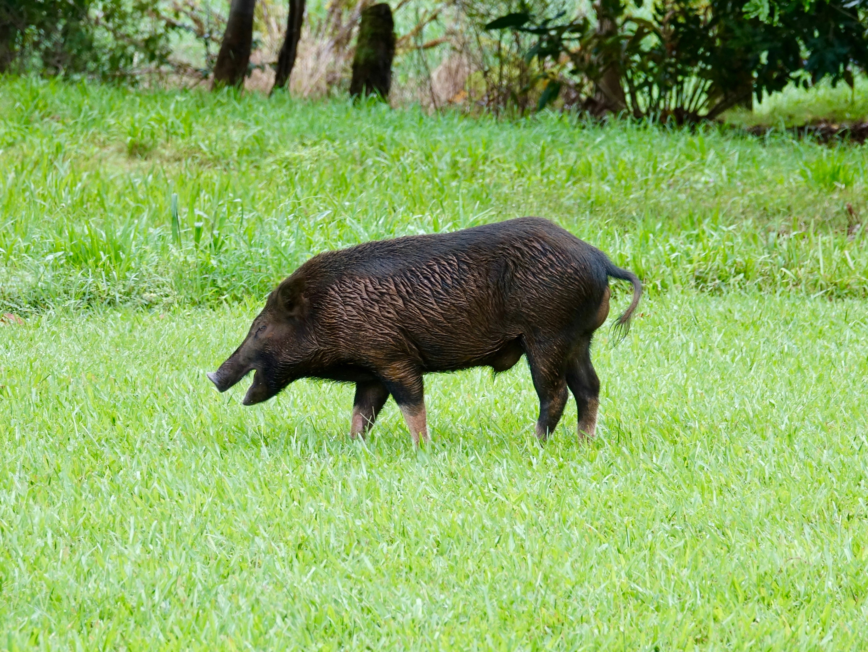 Wild pig